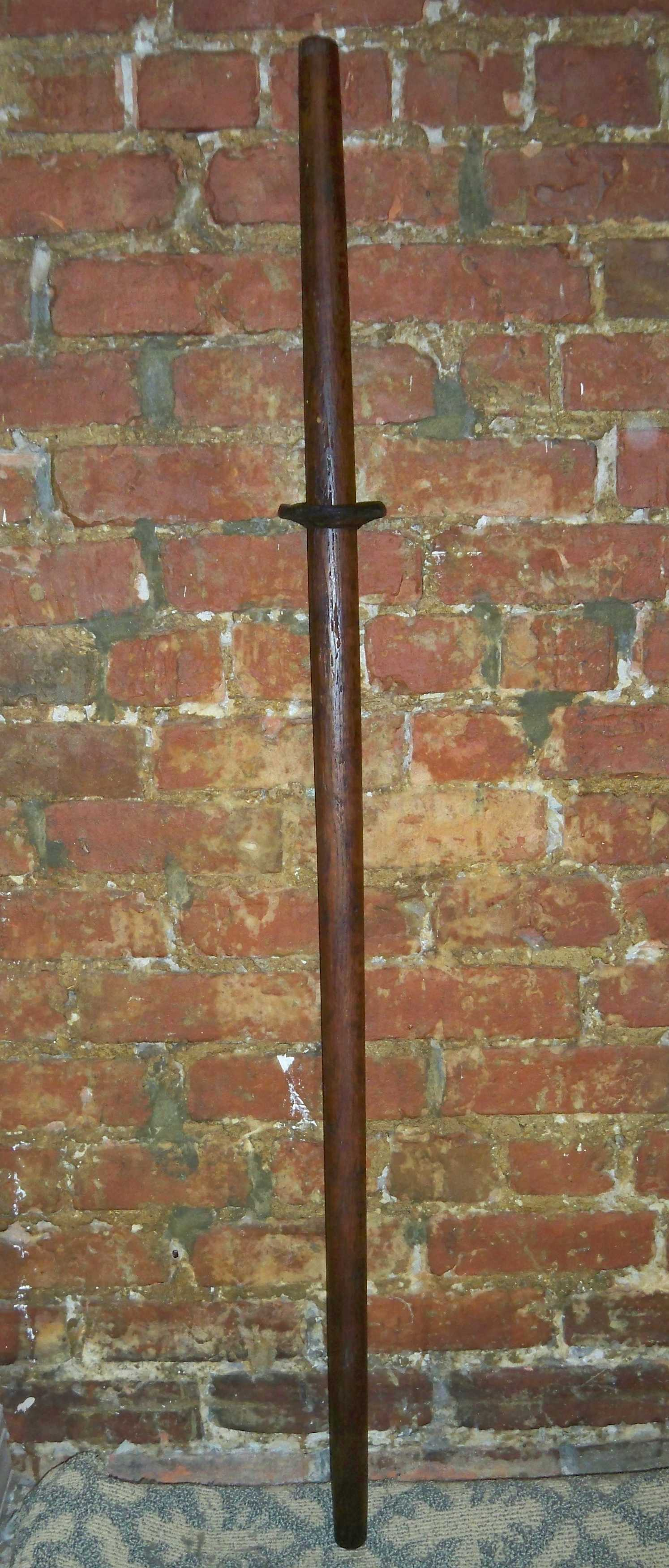 Antique Japanese bokken 48 inches long.